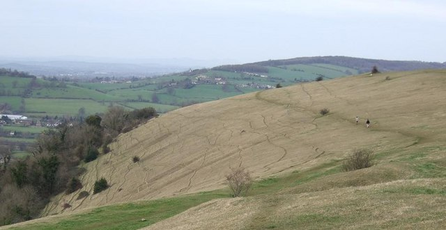 Selsley Common Note the paths worn by grazing cattle over the years